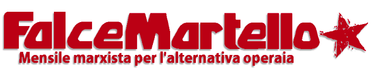 Web logo of FalceMartello